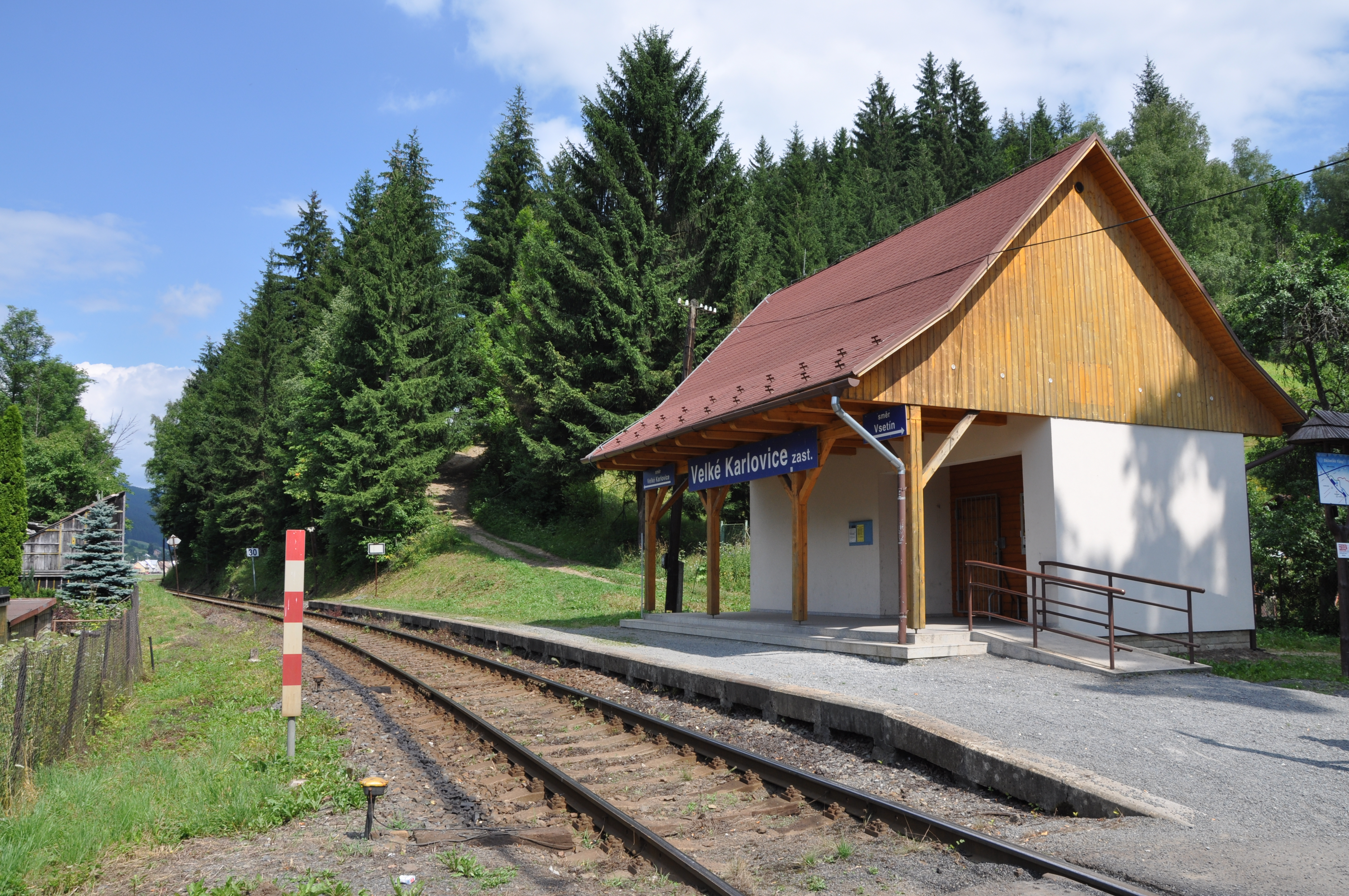 Velké Karlovice, Vsetín District, Czech Republic.